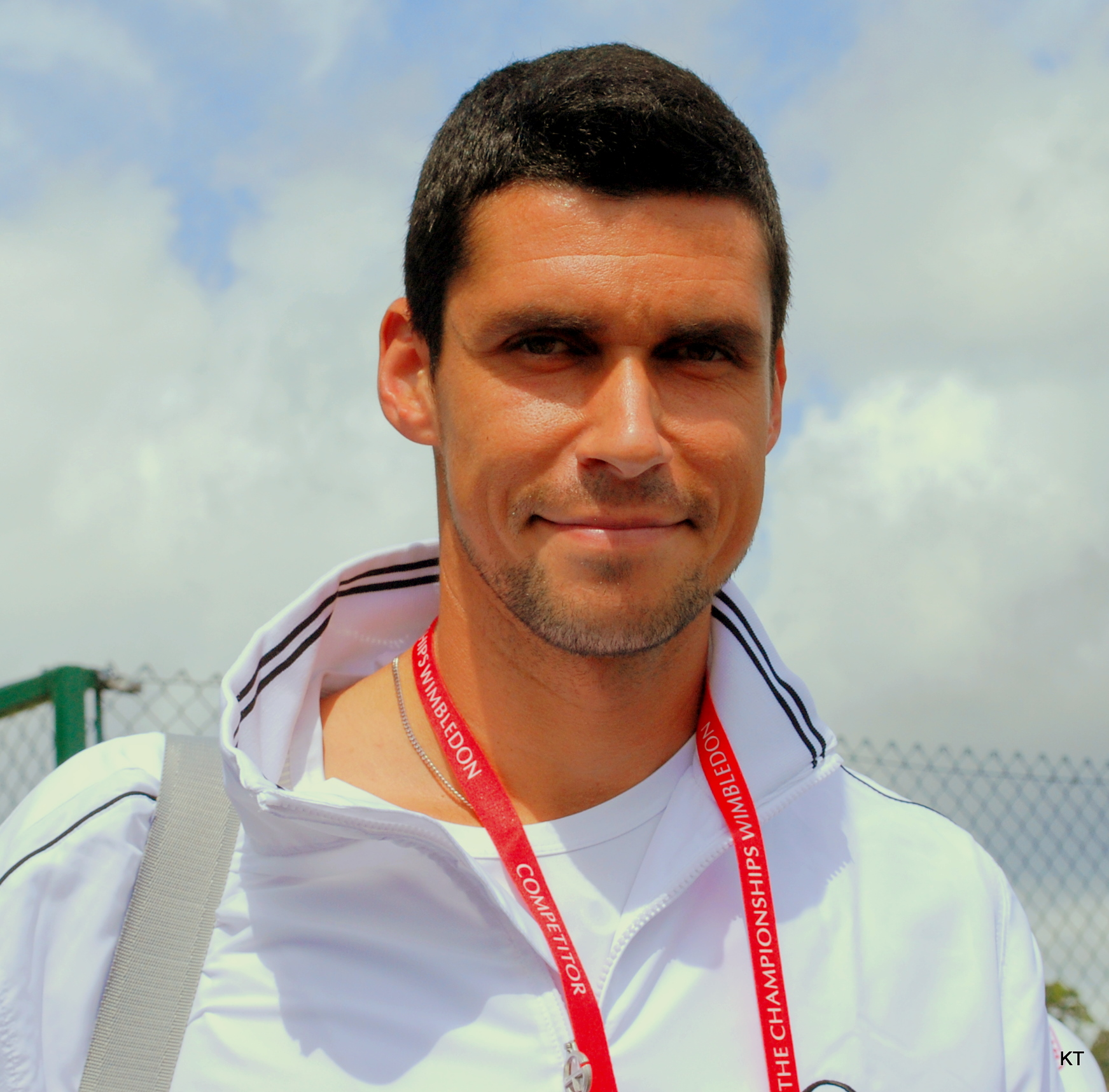 Day 2 of Wimbledon 2011.